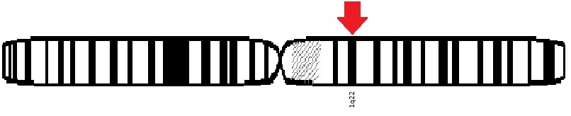 Gen LMNA location in chromosome 1.